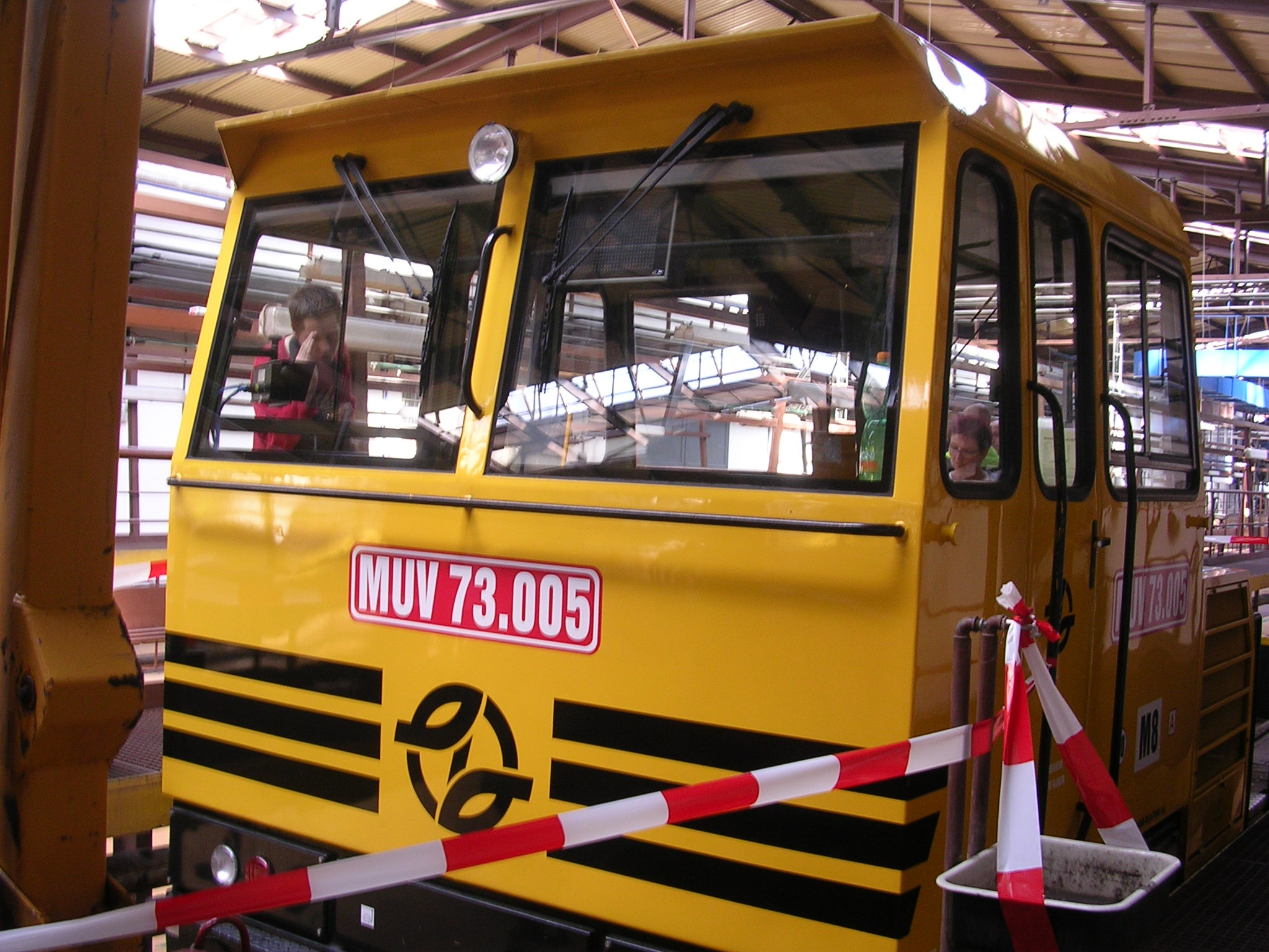 Třebonice, Prague, the Czech Republic. Open Doors Day in Zličín metro depot. A rail service vehicle MUV 73 of Prague Metro.